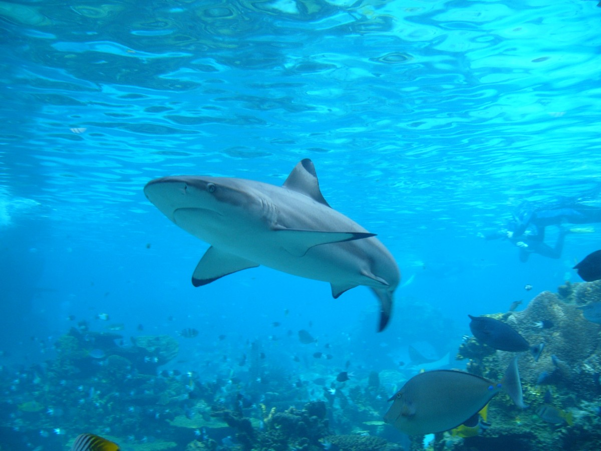 Blacktip reef shark (Carcharhinus melanopterus) at Sea World, Australia